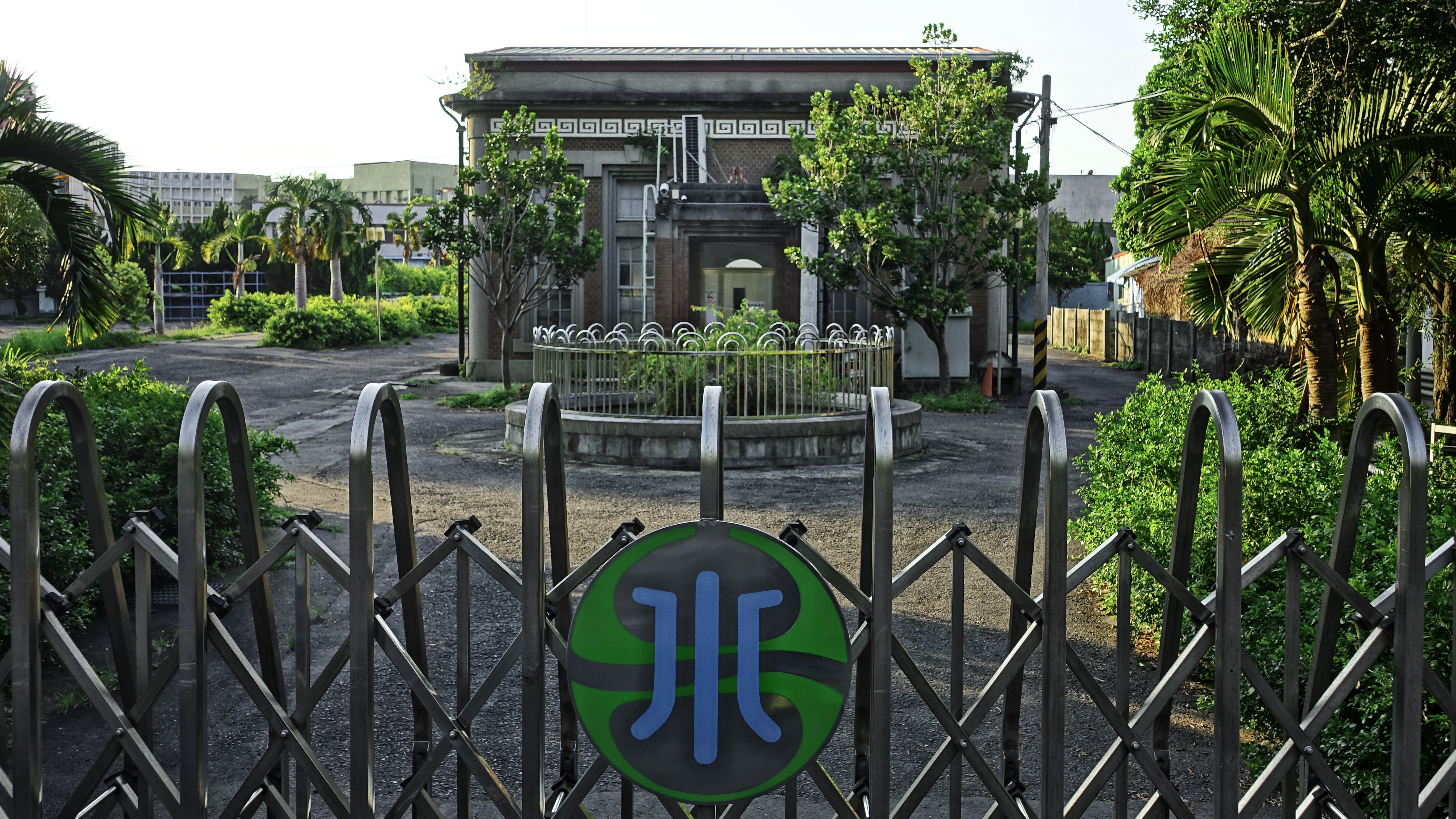 Taiwan Water Corporation, Pump Room, Huwei Township, Yunlin County, Taiwan.